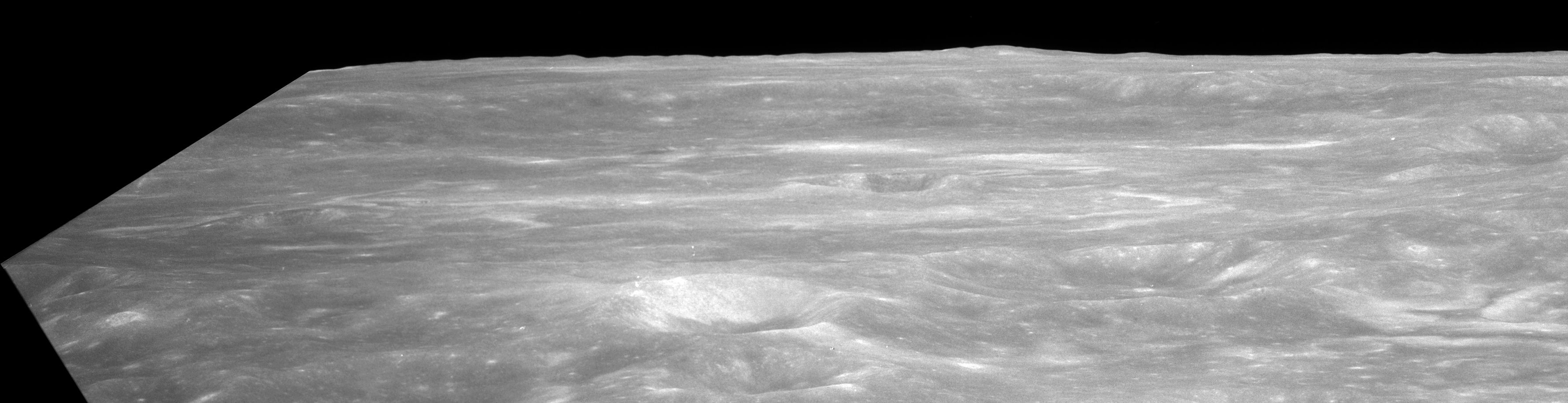 Highly oblique view of Fleming, on the far side of the moon. Facing northeast.